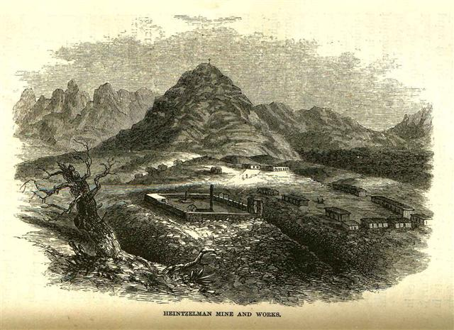 Fort Cerro and Cerro Colorado, Arizona in the United States. An 1864 drawing by John Ross Browne from his book "Adventures in the Apache Country". Caption reads: "Heintzelmen Mine and Works."